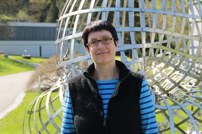 Picture of Nina Gantert